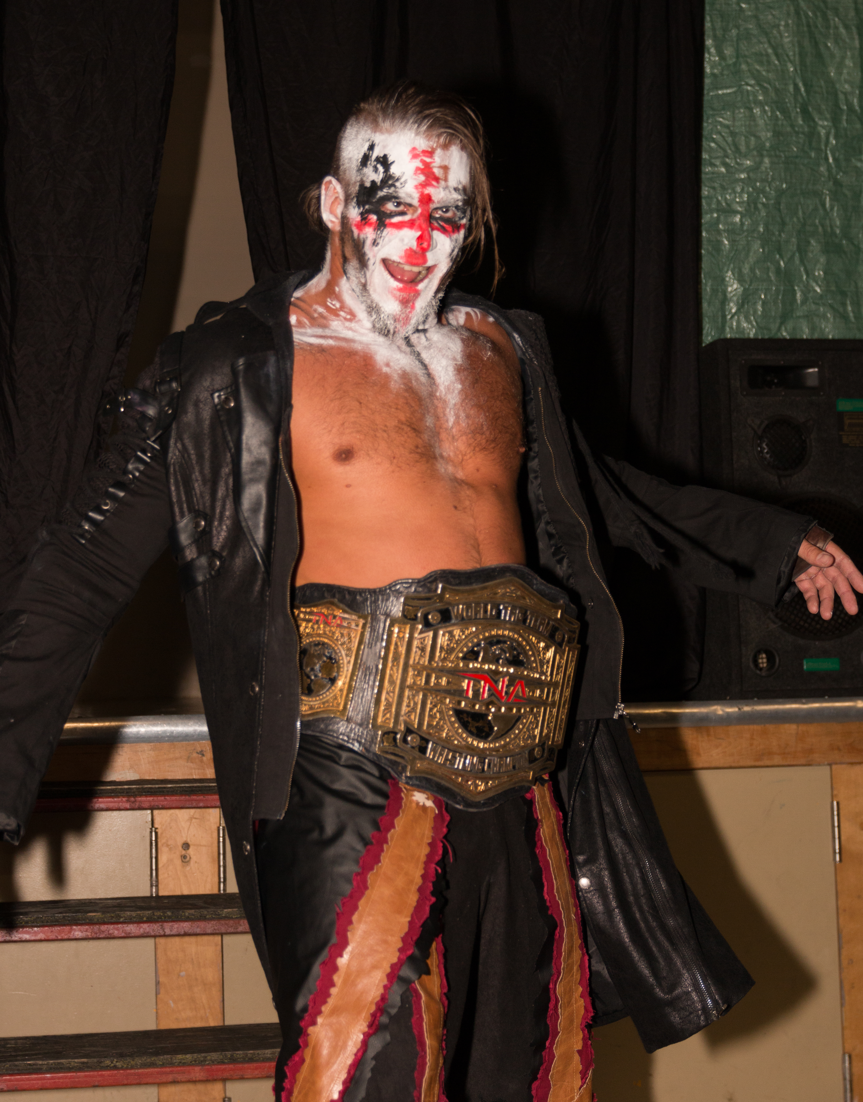 Crazzy Steve - making his way to the ring with the TNA Tag Team championship belt around his waist - at an independent show in Angus, ON